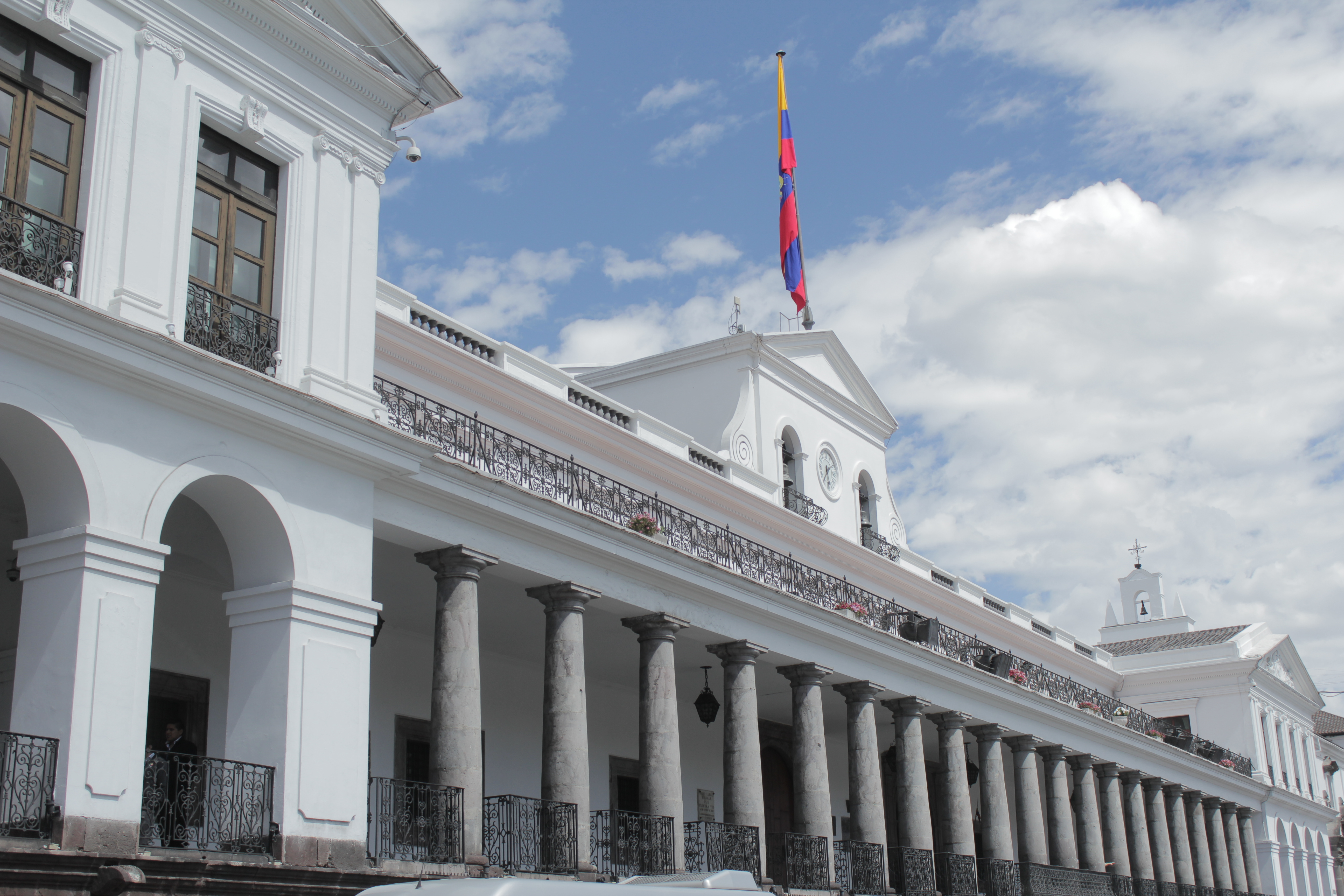 An outside view of Ecuador's Presidential palace, from García Moreno Street.